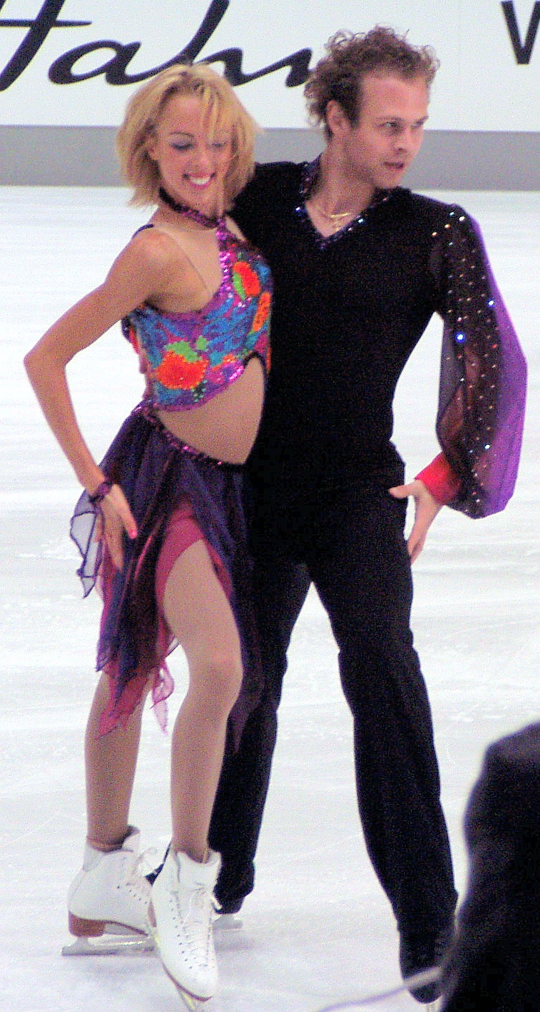 Morgan Matthews and Maxim Zavozin (USA) at the Nebelhorntrophy in Oberstdorf, Germany 2006